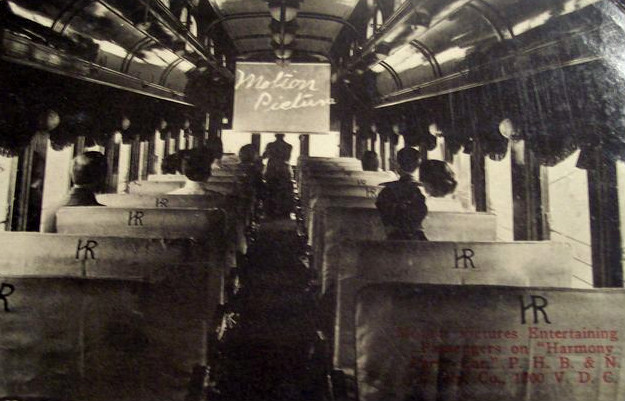 Postcard photo of a Pittsburgh, Harmony, Butler and New Castle Railway parlor car. The railway was promoting the fact that it was showing films on its Harmony Run parlor cars. The service took place in Butler County, Pennsylvania.